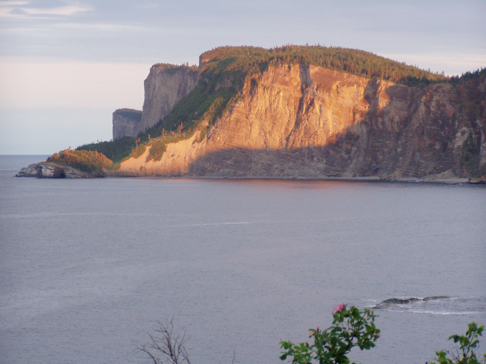 Cap Bon-Ami at sunset. Photo taken in July 2005 by Danielle Langlois at the Forillon National Park in Quebec, Canada.